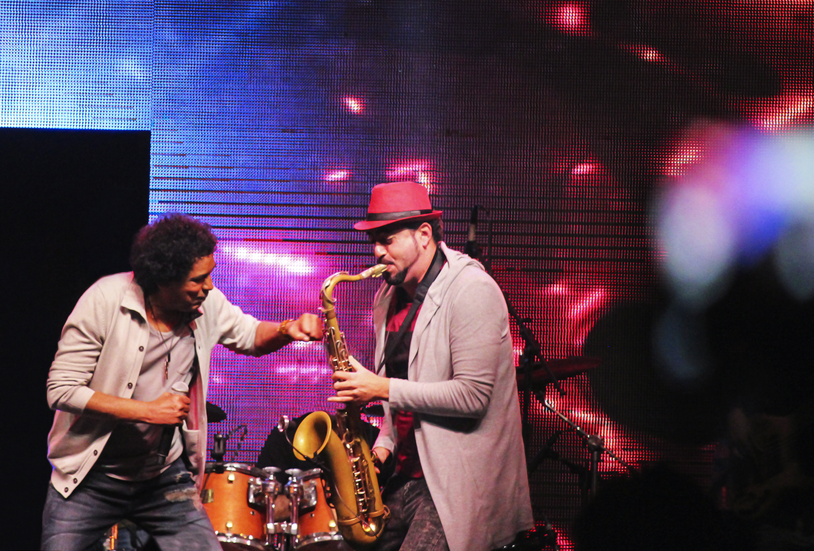 Mohamed Mounir, an egyptian singer, while performing his unique songs in Cairo. He also called "The King" by his fans, This is an image from Egypt